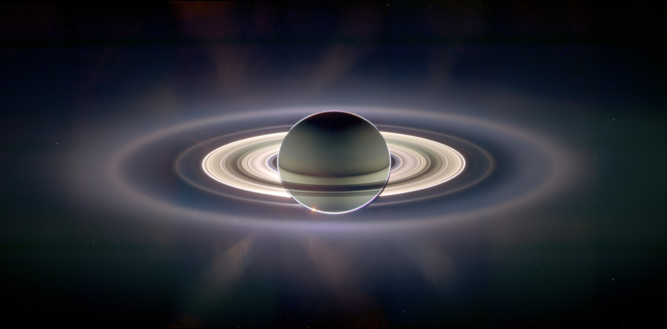 Saturn eclipsing the sun, seen from behind from the Cassini orbiter. The color is exaggerated in this version. The image is a mosaic assembled from images taken by the Cassini spacecraft. Individual rings seen include (in order, starting from most distant) E ring Pallene ring (visible very faintly in an arc just below Saturn) G ring Janus/Epimetheus ring (faint) F ring (narrow brightest feature) Main rings (A,B,C) D ring (bluish, nearest Saturn) Also of note is a distant view of the Earth, visible between the G ring and the brighter main rings to the left of Saturn, somewhat above center. For a detailed description, and